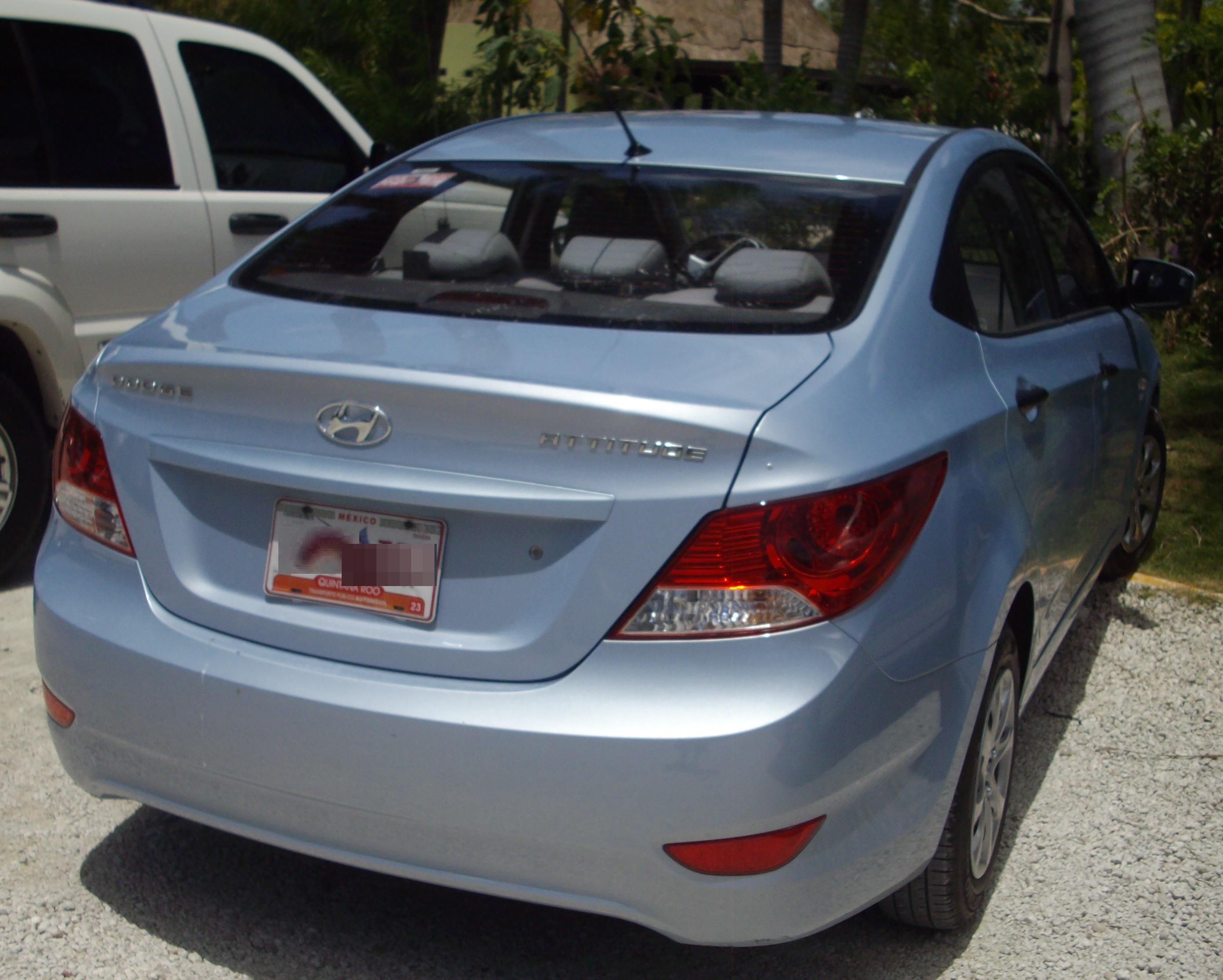 2012 Dodge Attitude photographed in Quintana Roo, Mexico.